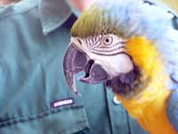 Image without cataract